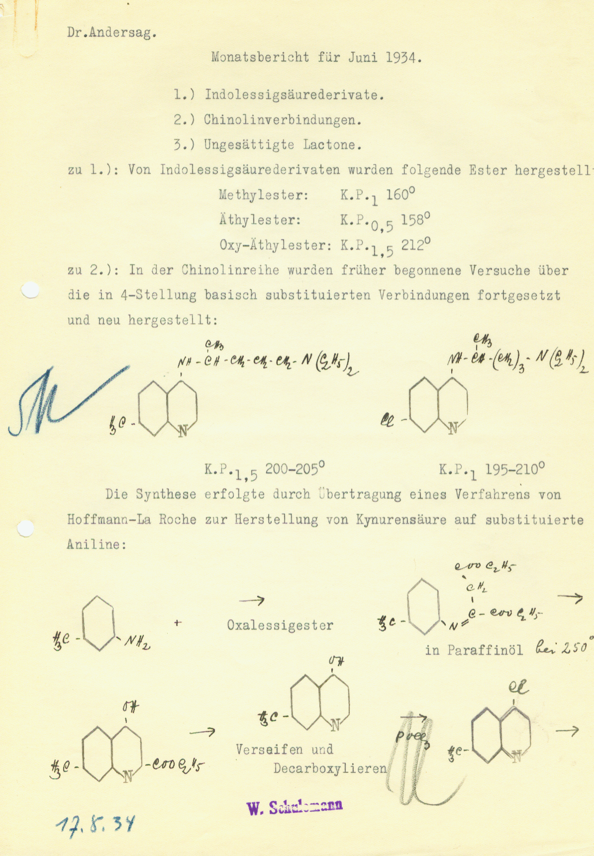 First protocol for the synthesis of Resochin/Chloroquine. Written by Hans Andersag in 1934